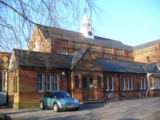 Guildford High School This is the old brick building of the exclusive girls' school which has been much expanded in recent years. The London Road school is one of England's most successful "examination grade factories".